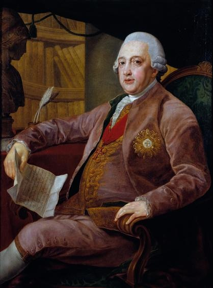 Ajuda